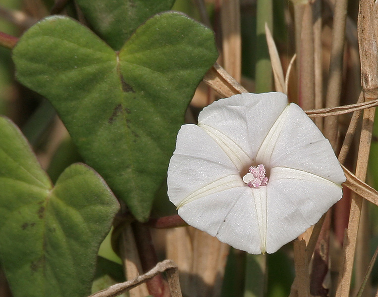 Ipomoea marginata near Hyderabad, India.